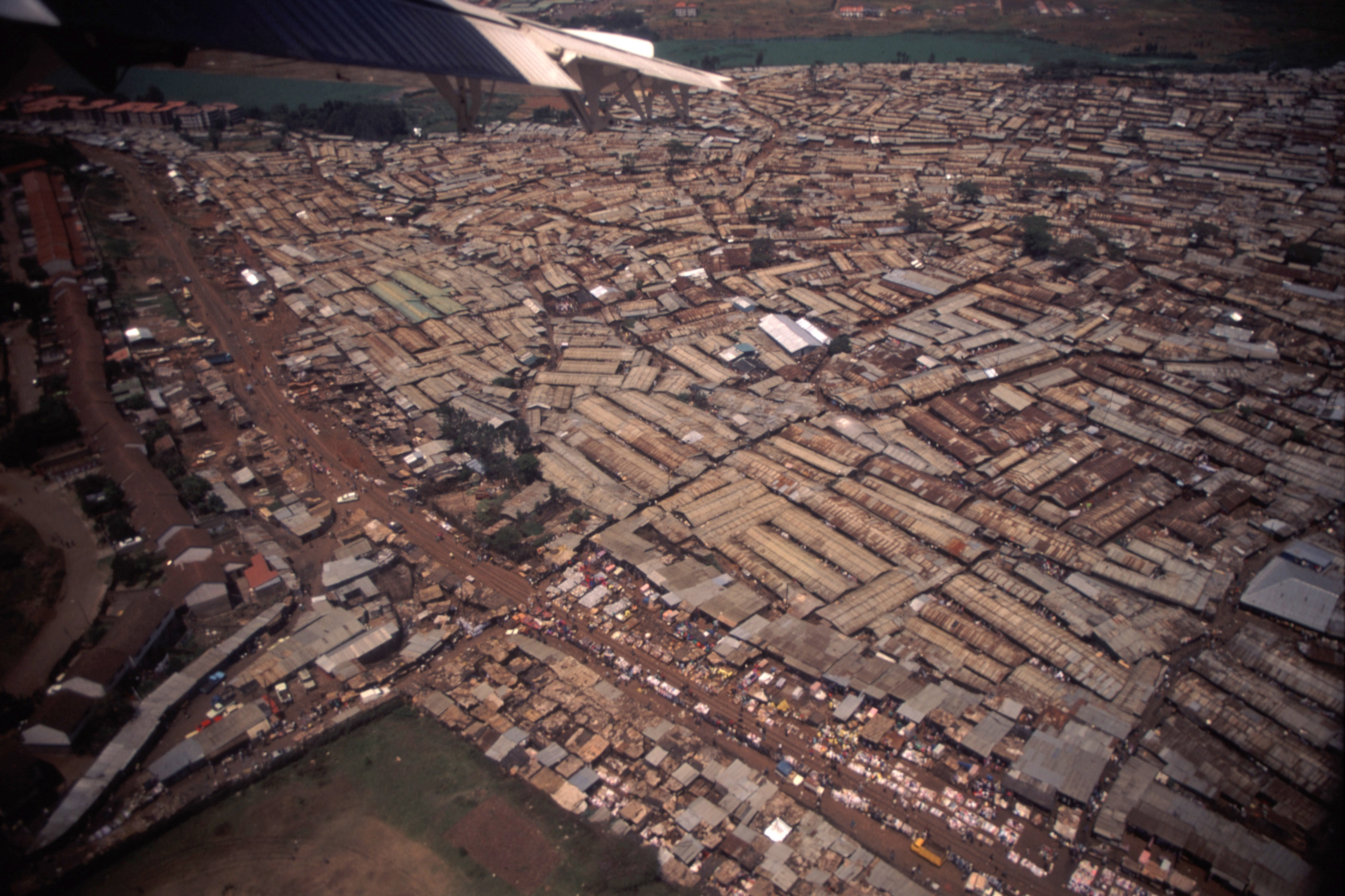 From an airplane, the slums of Nairobi. Taken on safari in Kenya.